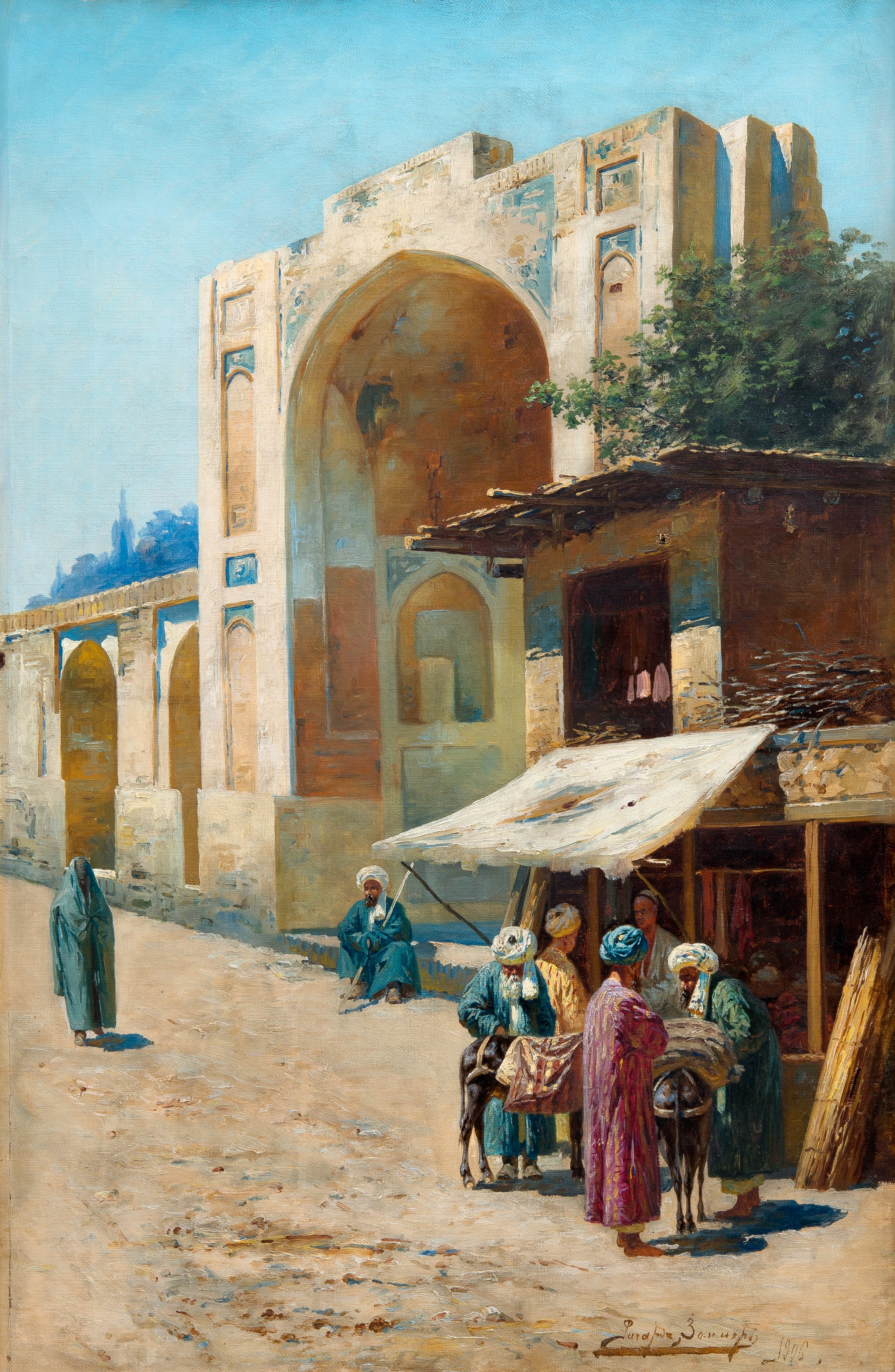 Richard Zommer: By the city gate. Oil on canvas 72x47 cm.